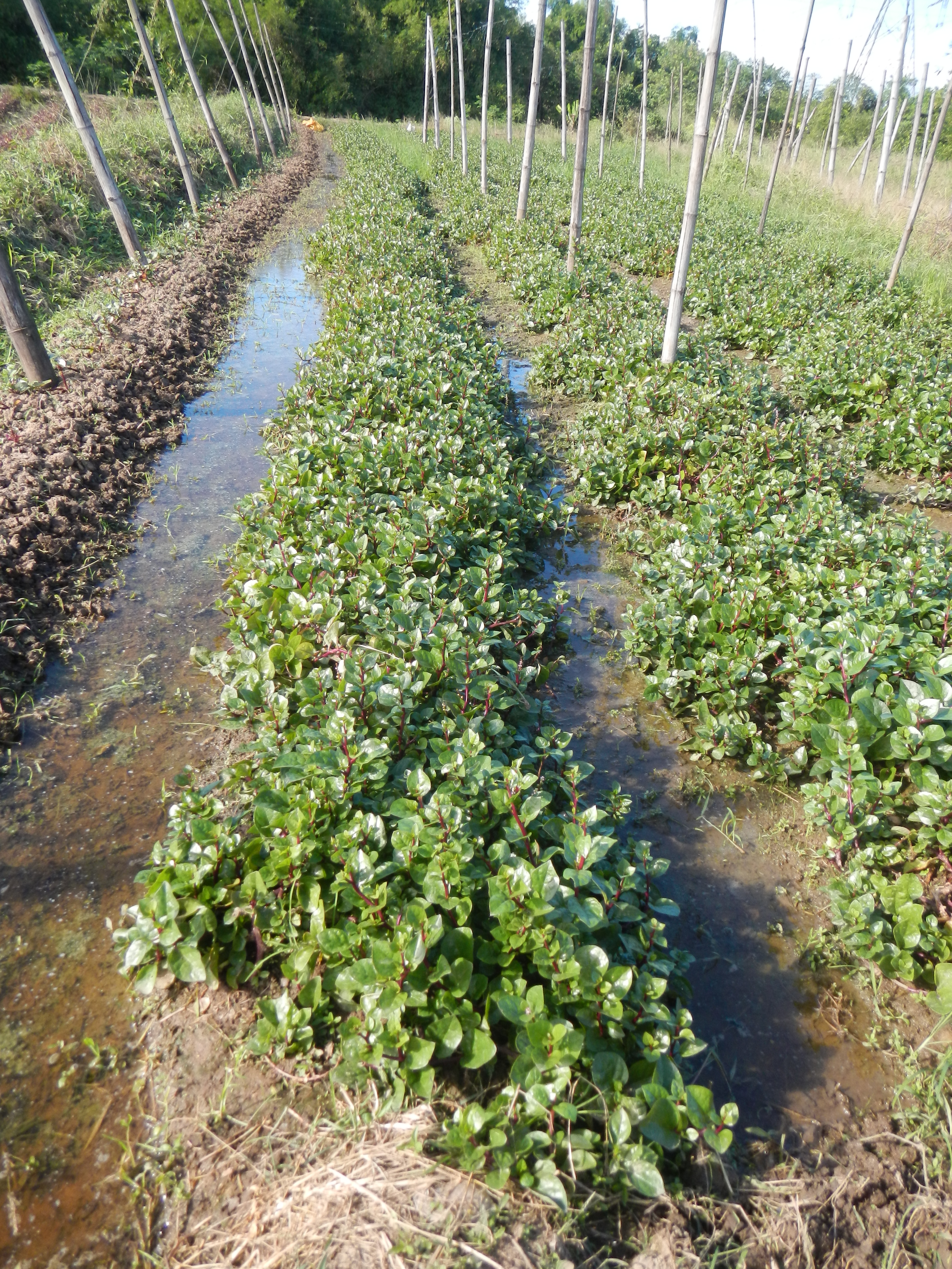 Ipomoea batatas Basella alba Landscape of vegetable plantations (Binagbag, Angat, Bulacan village).